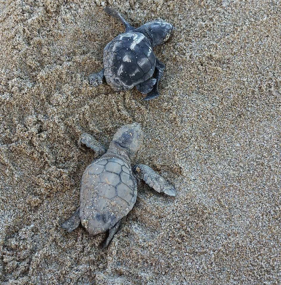 Picture taken during an Archelon project in September 2015